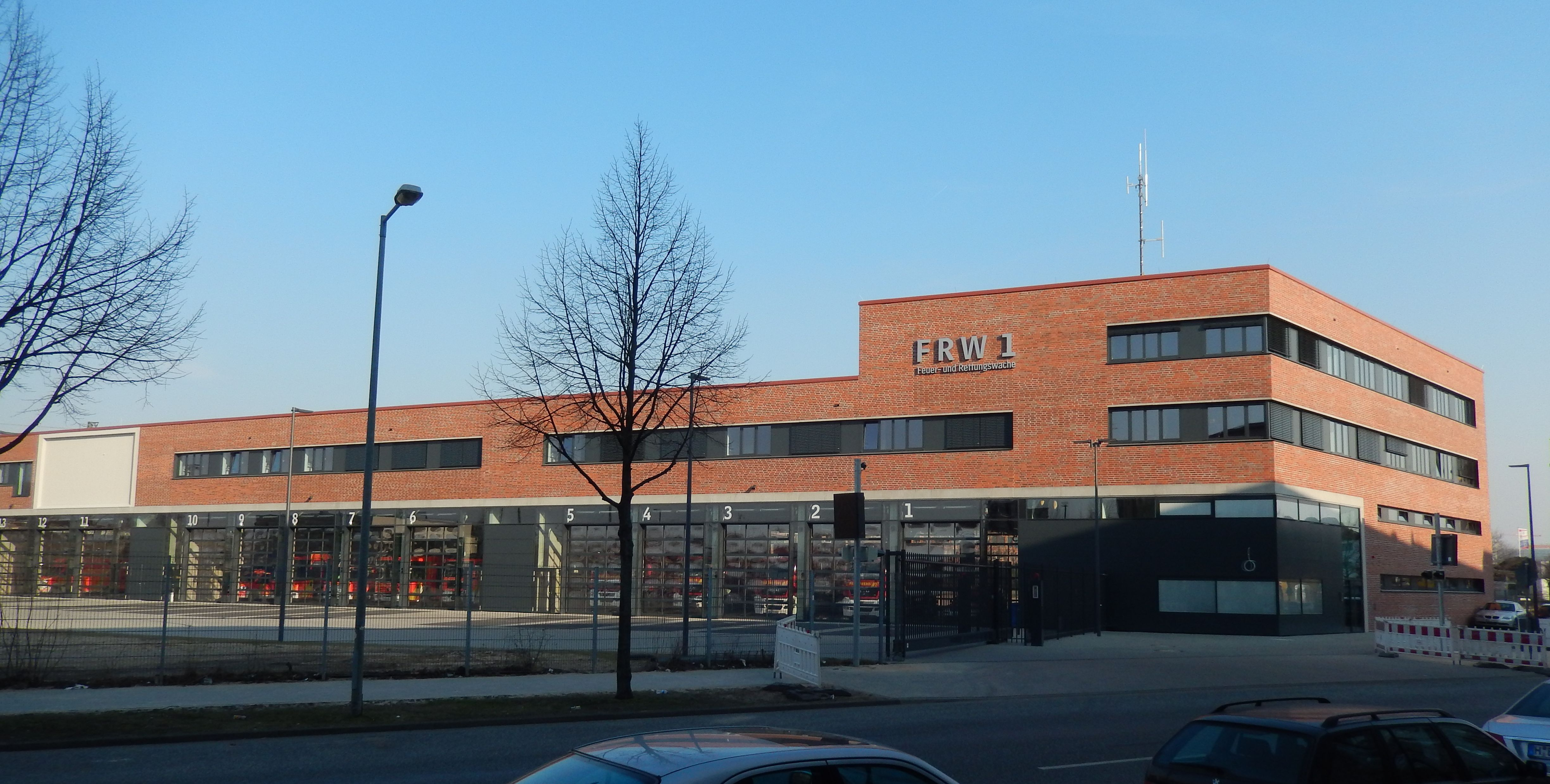 Fire Station in Hannover, Germany.